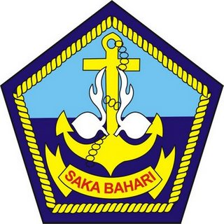 this is logo of saka bahari